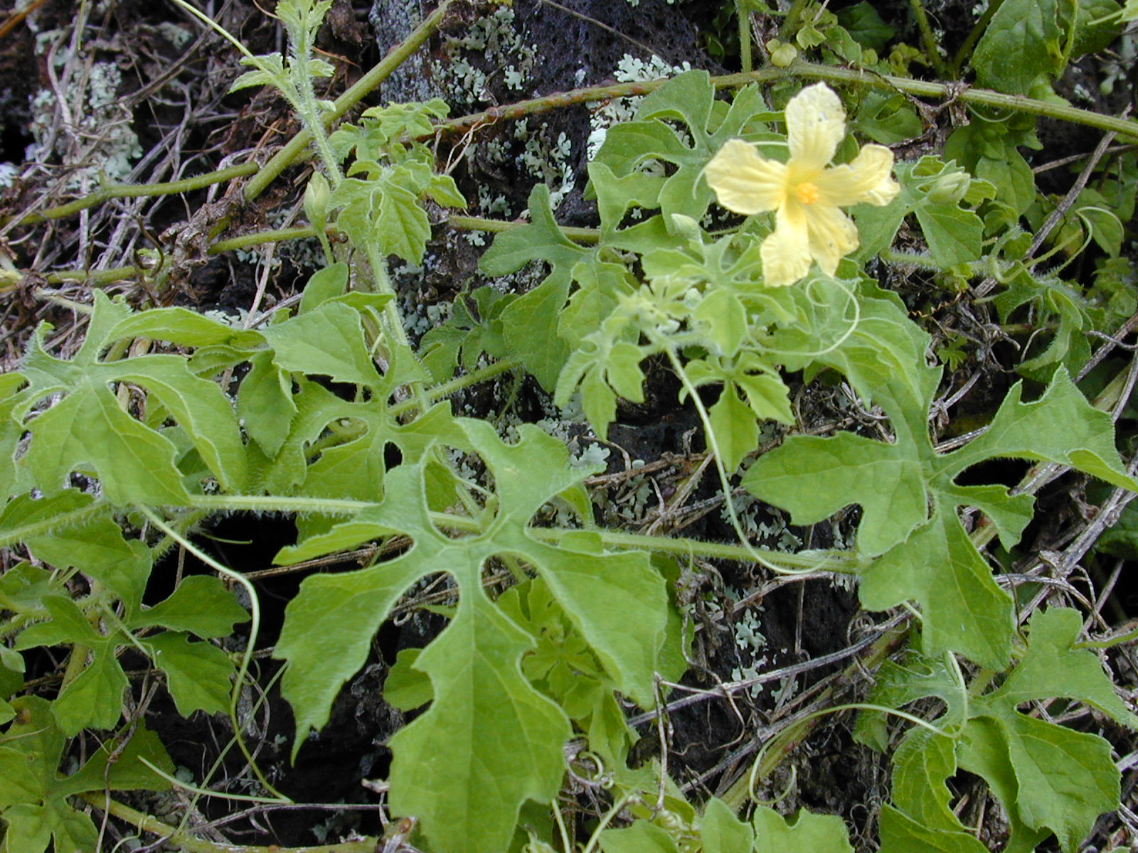 Momordica charantia (leaves and flower). Location: Maui, Wailea 670